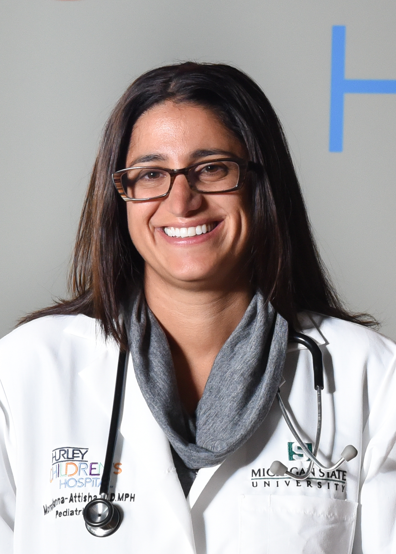 Hanna-Attisha Photo